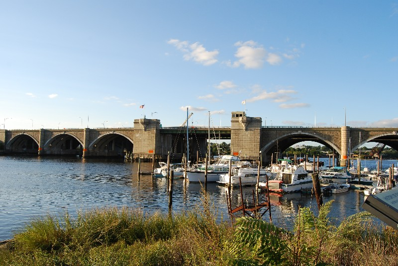 Washington Bridge (I-195) spanning the Seekonk River between Providence and East Providence, Rhode Island